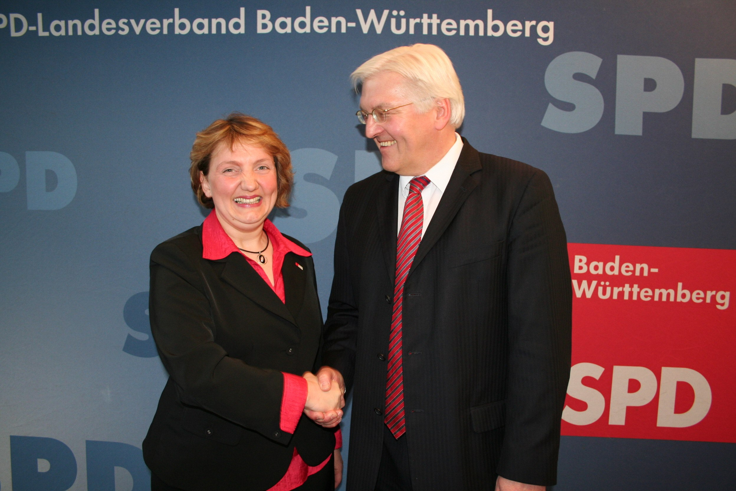 Katja Mast, German SPD politician, with Frank-Walter Steinmeier